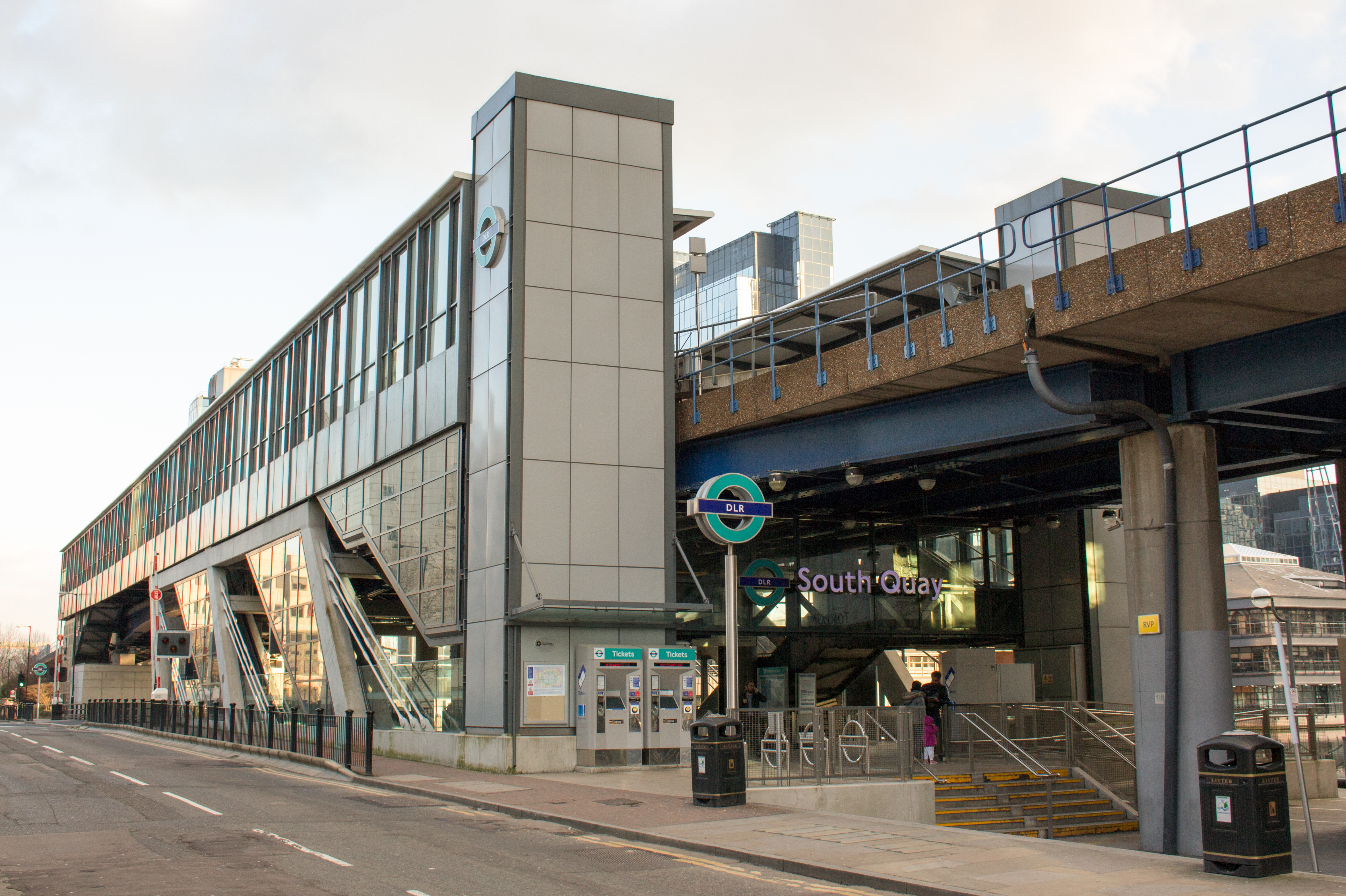 South Quay DLR roadside